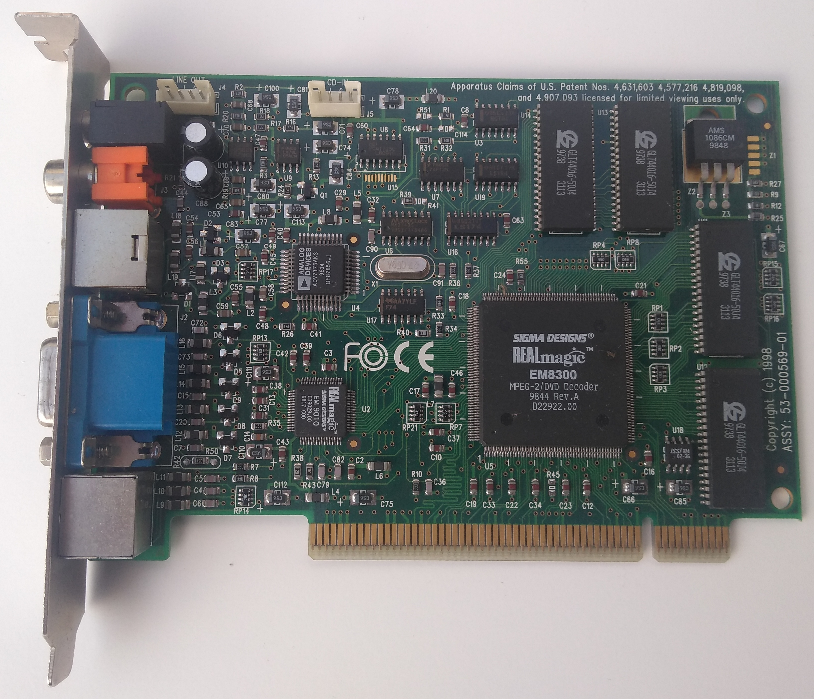 Sigma Designs REALmagic EM8300 PCI video card supporting MPEG-2 decoding